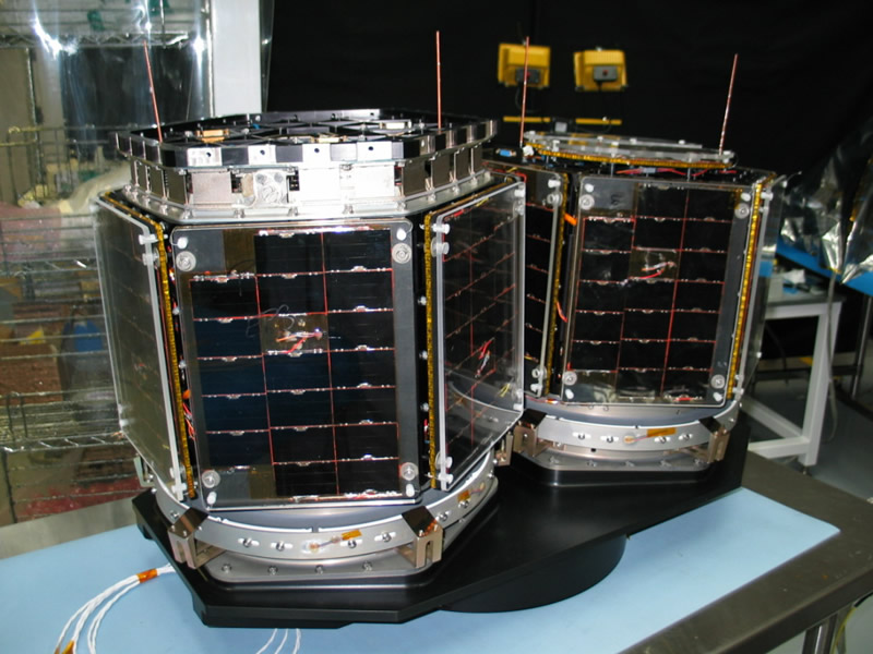 Photograph of 3CS satellites at testing facility